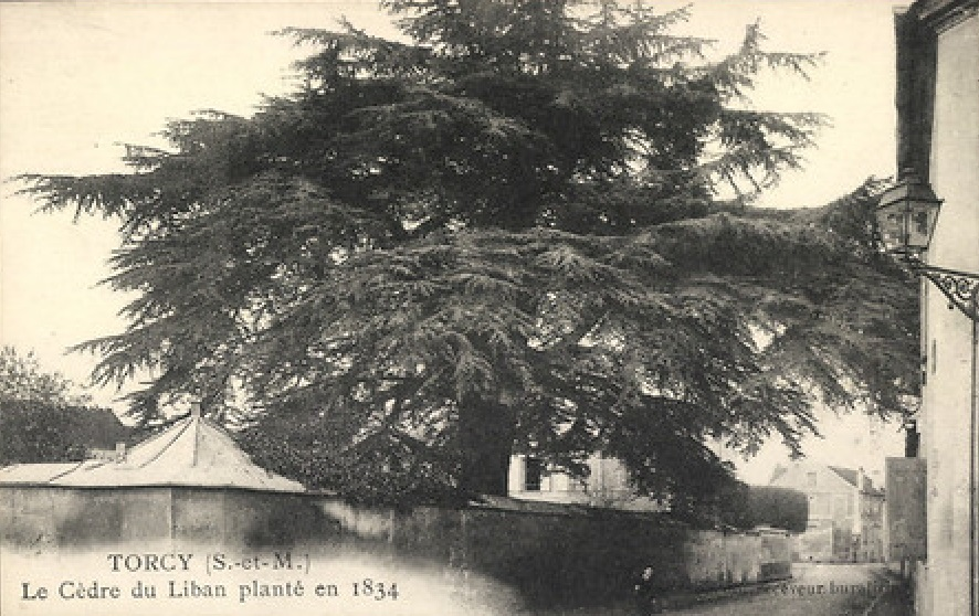 An old postal card showing an old tree at Torcy (France)